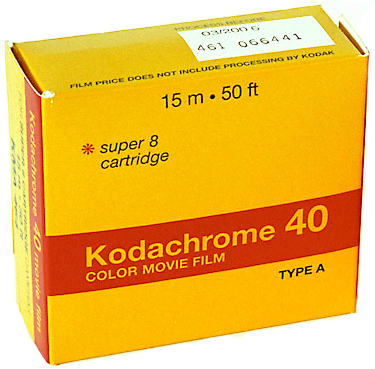 Película Kodachrome 40A